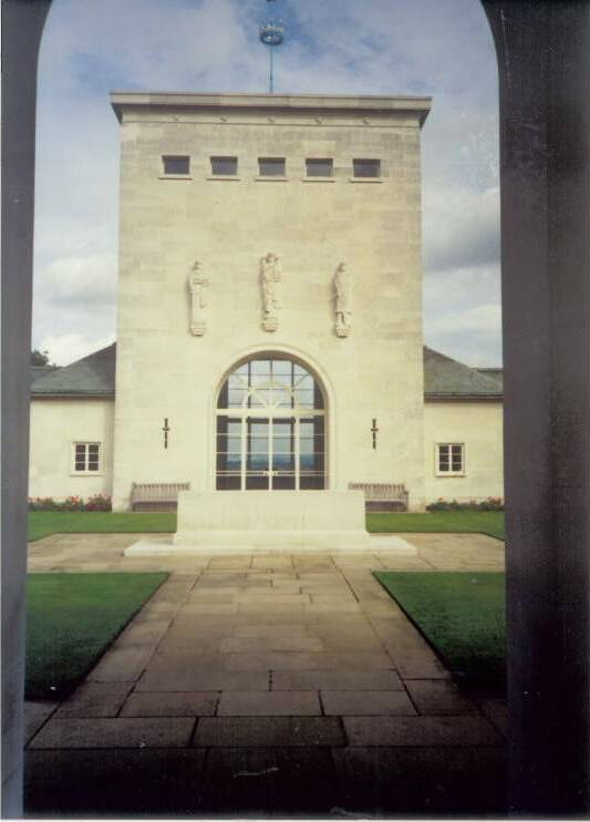 Air Forces Memorial, Runnymede, UK